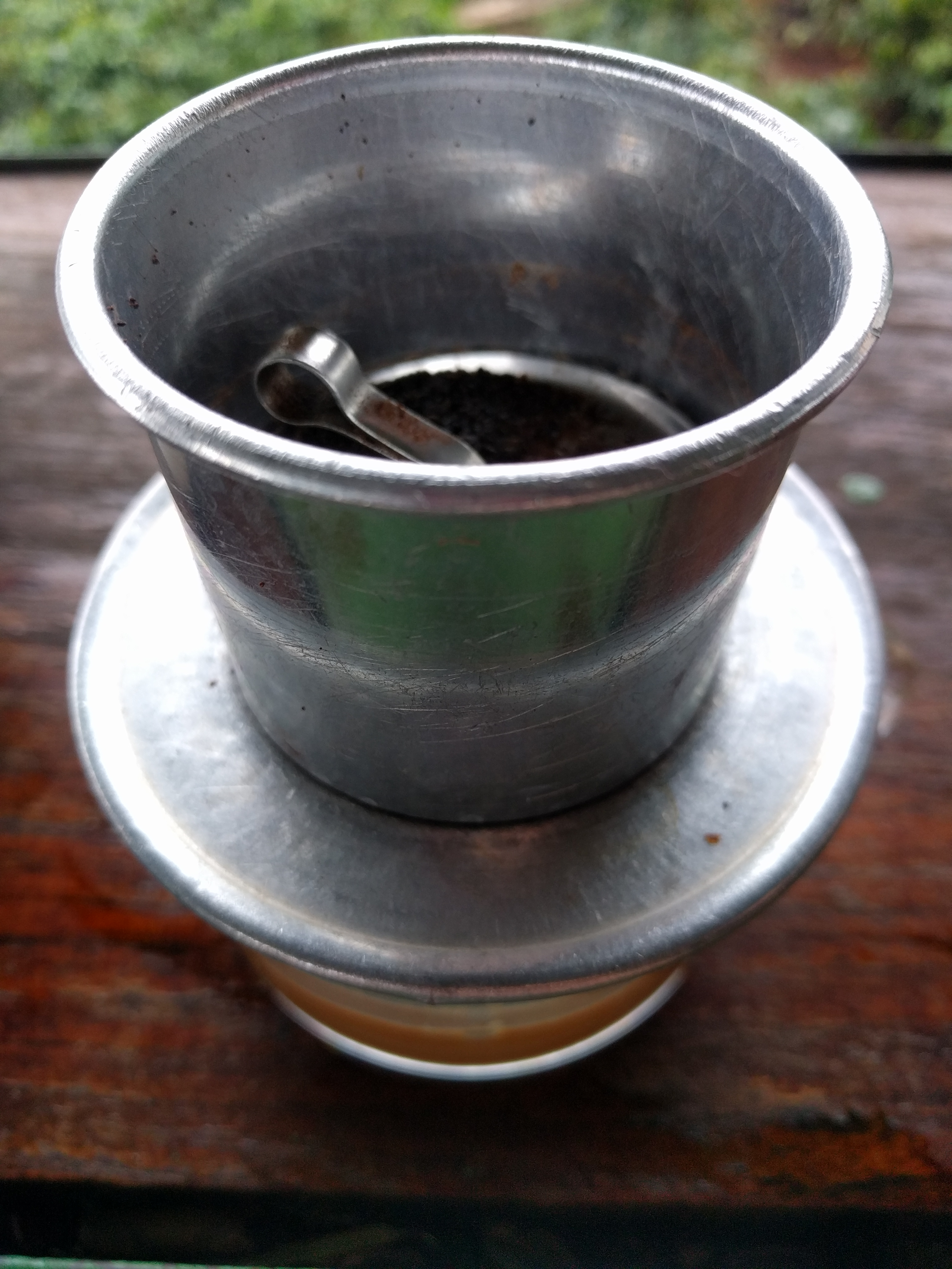 Arabika civet coffee, made from Civet poop. Was taken in Da Lat, Vietnam.